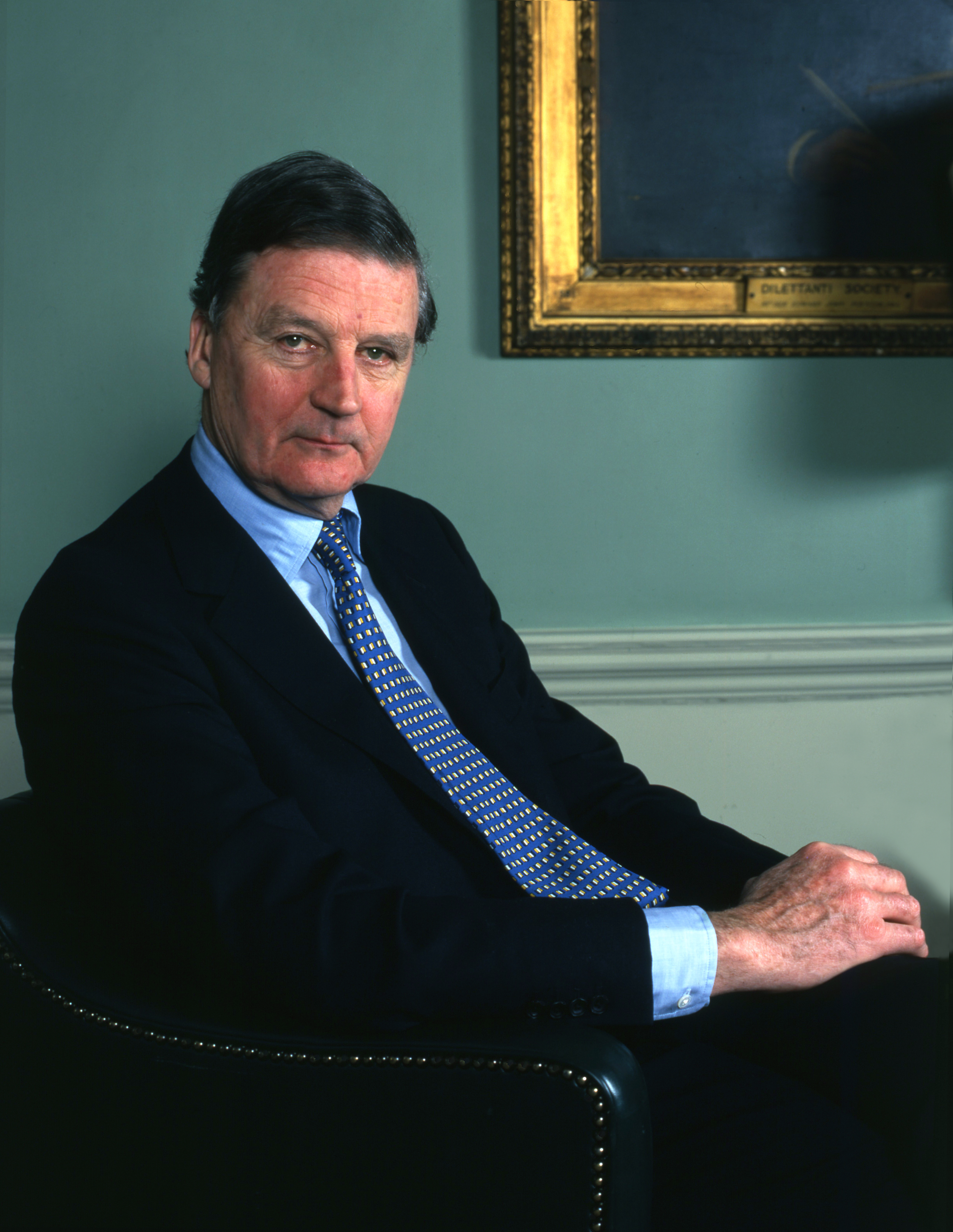 Portrait of The 5th Duke of Abercorn taken at The Dukes Hotel, London